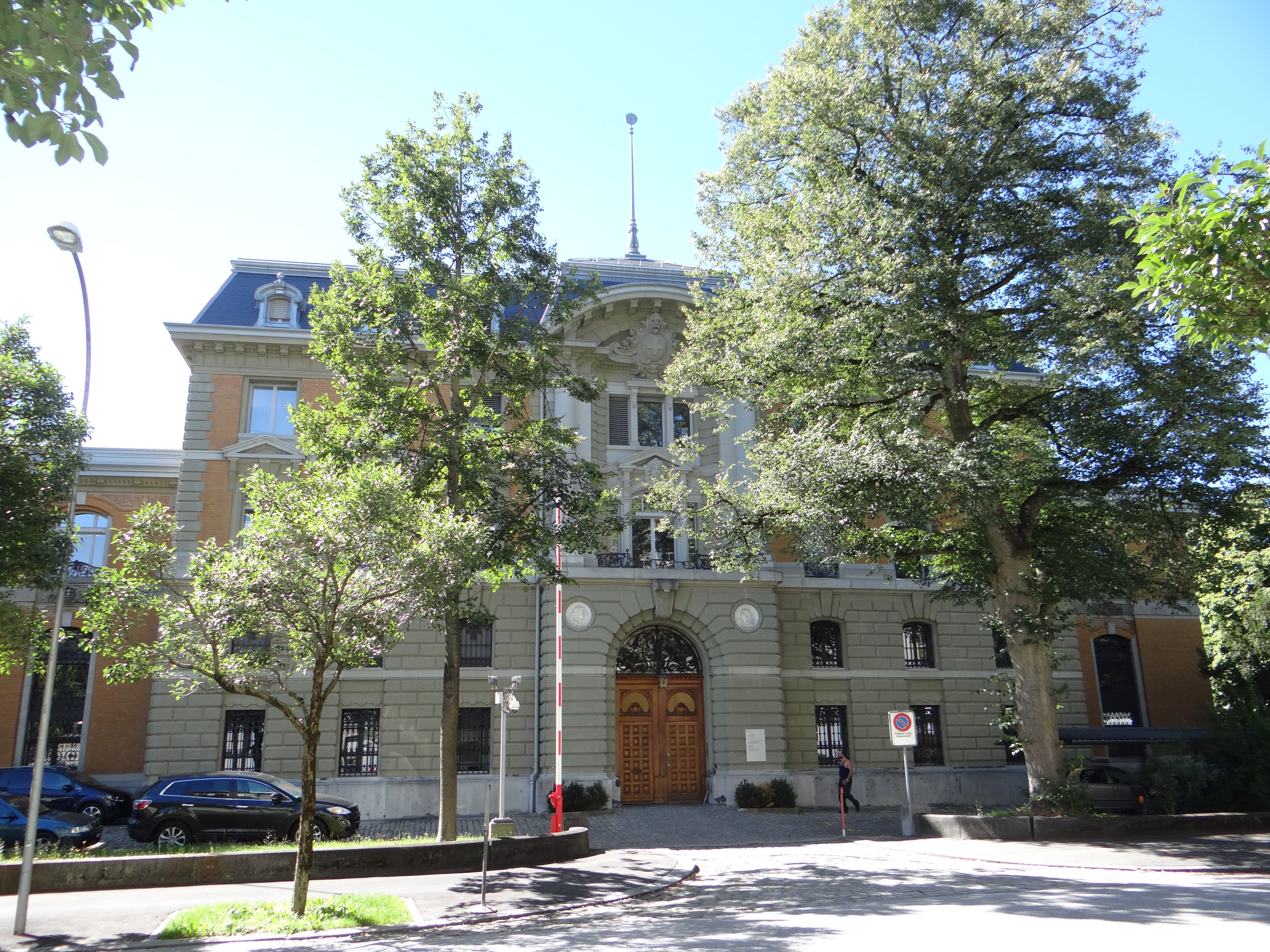 Front view of the Federal Minting House